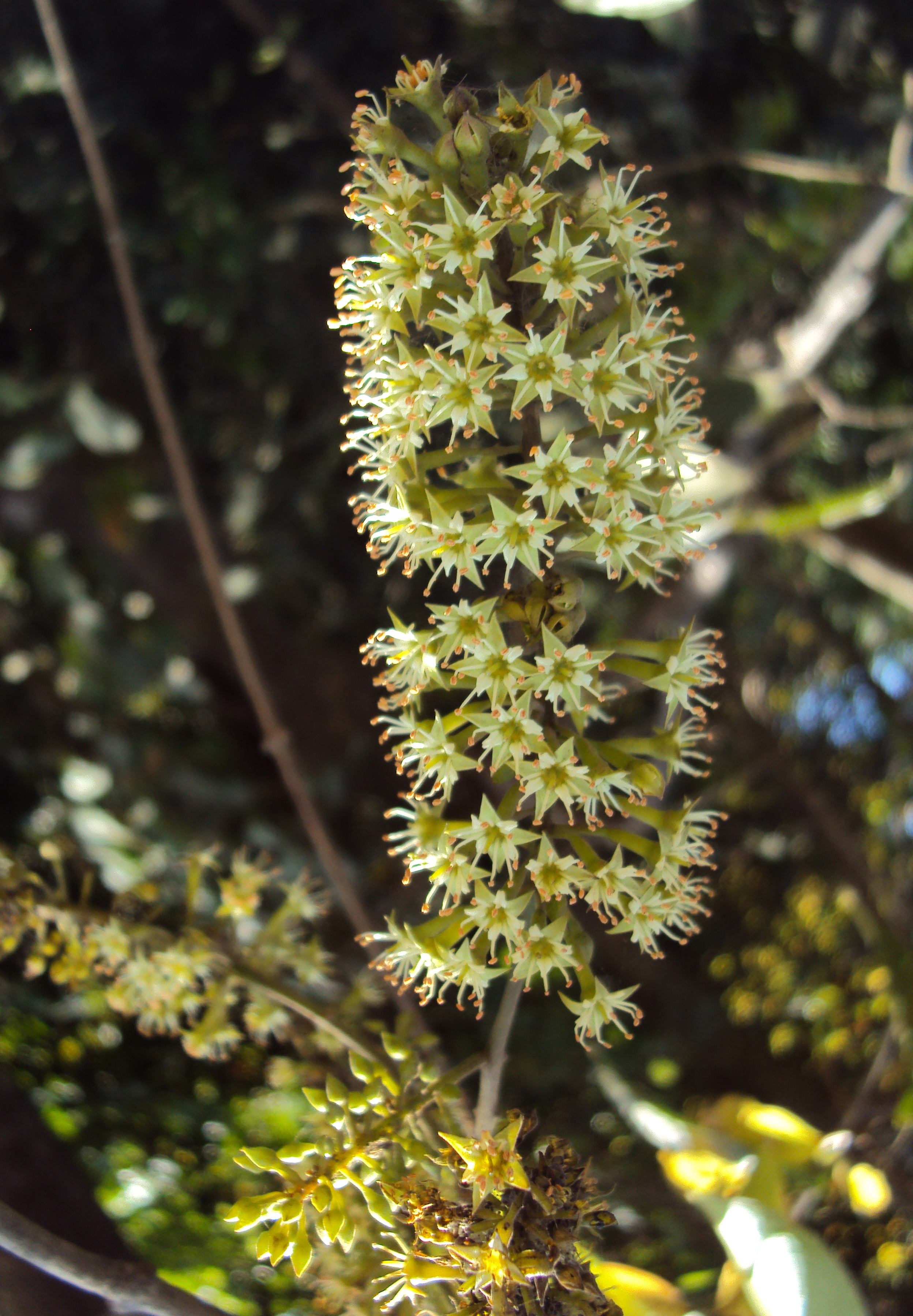 Combretum latifolium